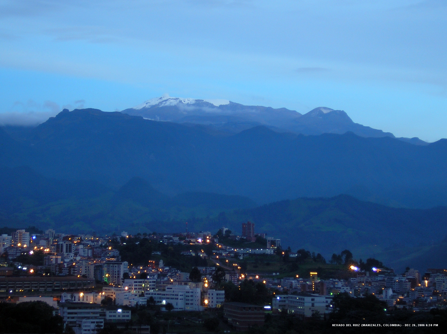 Nevado del Ruiz Volcano (Manizales, Colombia).